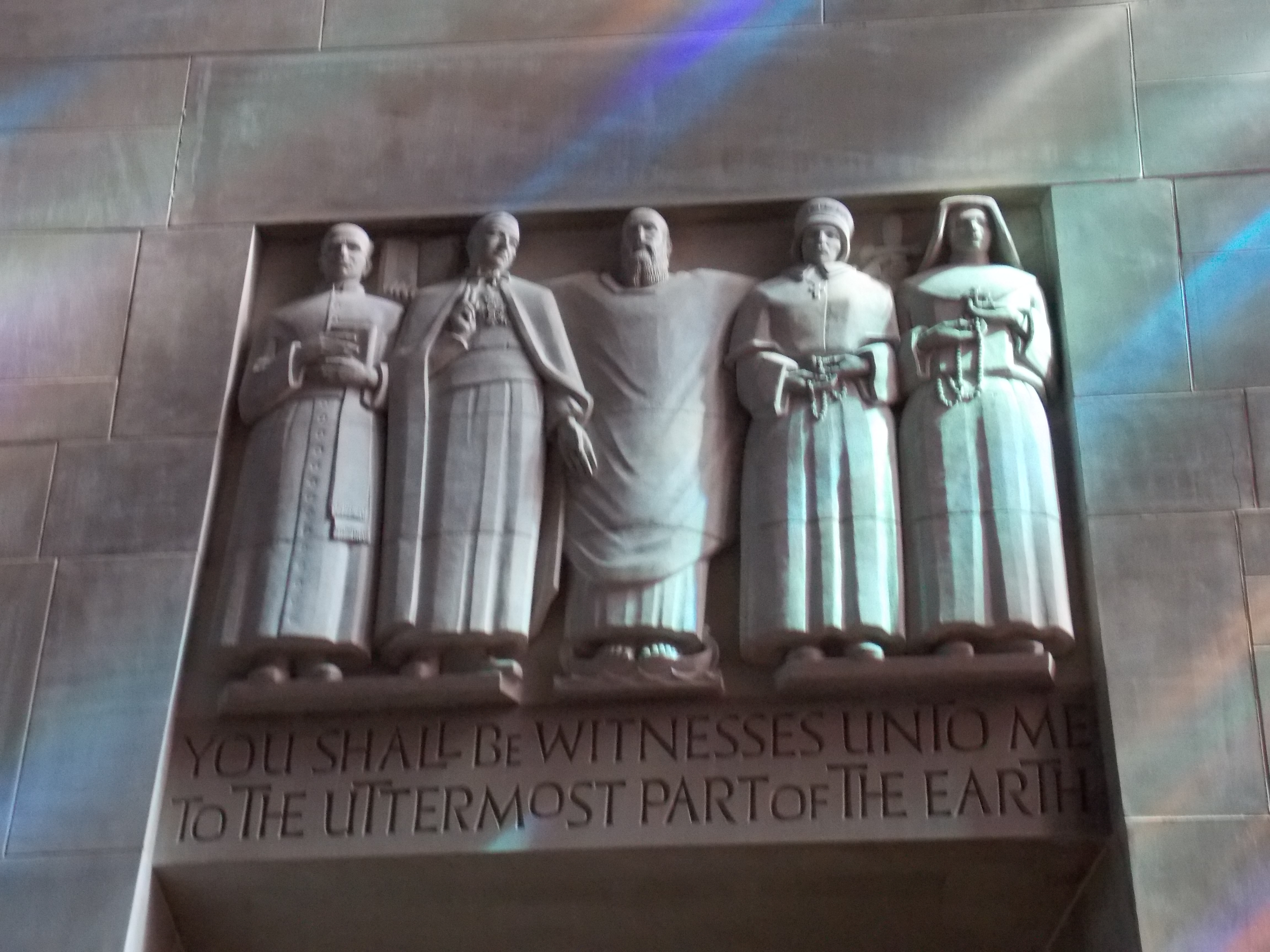 One of the bas reliefs that decorate the interior of the Cathedral of Mary our Queen in Baltimore, Maryland.